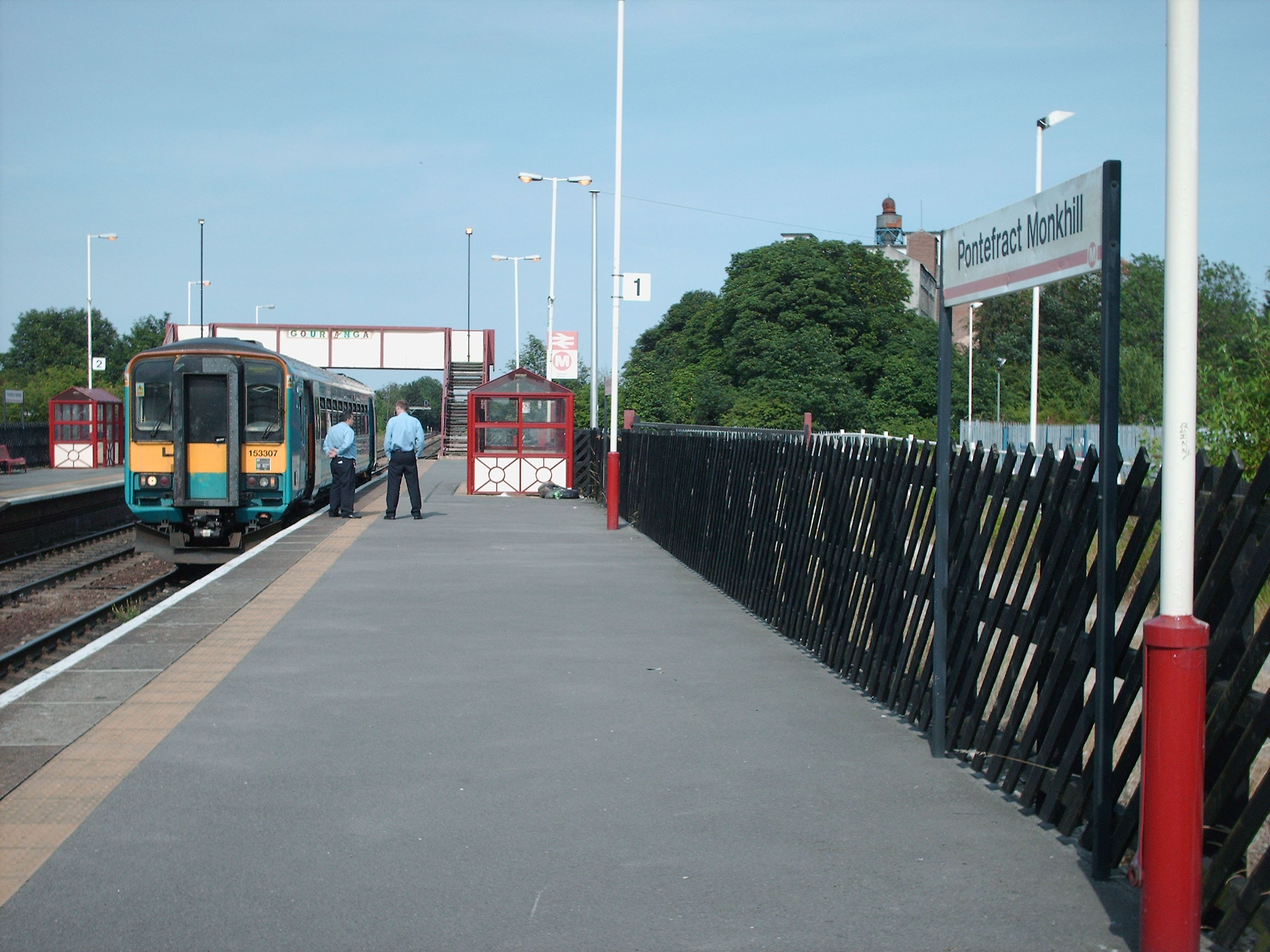 Pontefract_Monkhill railway station, West Yorkshire. Platform 1. Northern Trains DMU 153307 is waiting to depart for Wakefield Kirkgate.